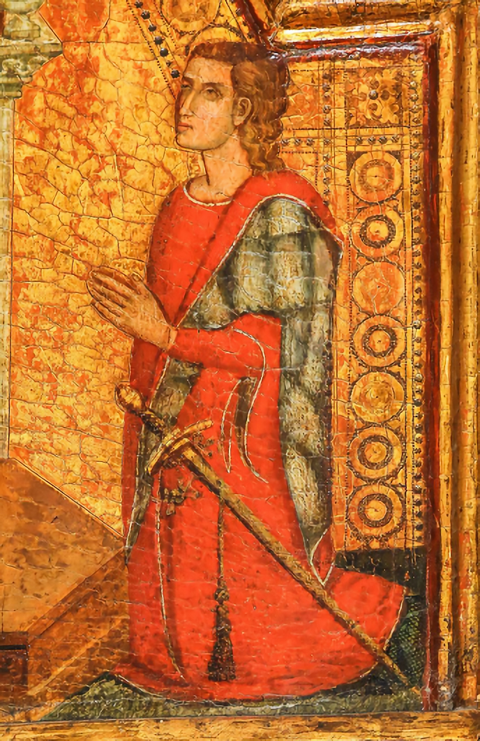 Mariano IV of Arborea